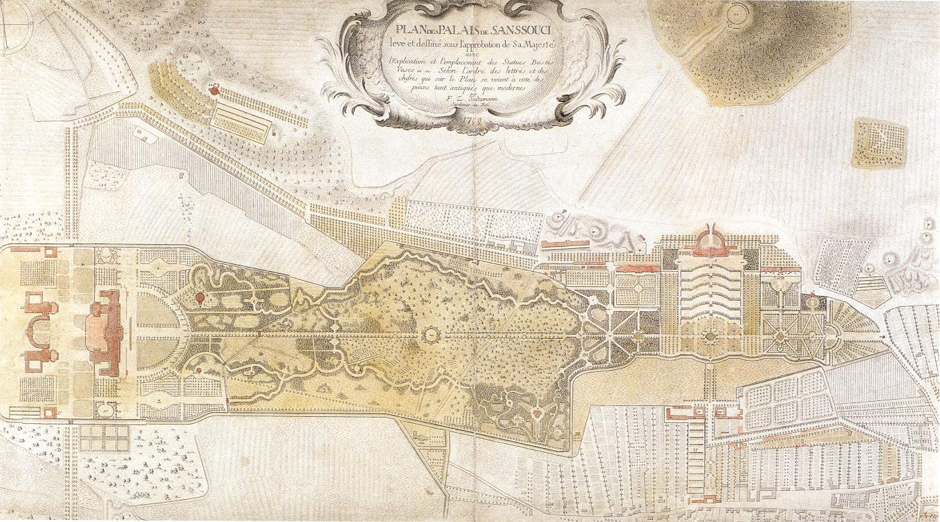 Plan of the frederician park Sanssouci of 1772, Potsdam, Germany